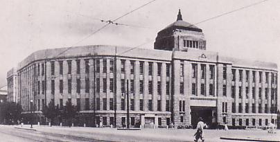 Keijo(Seoul) City Hall